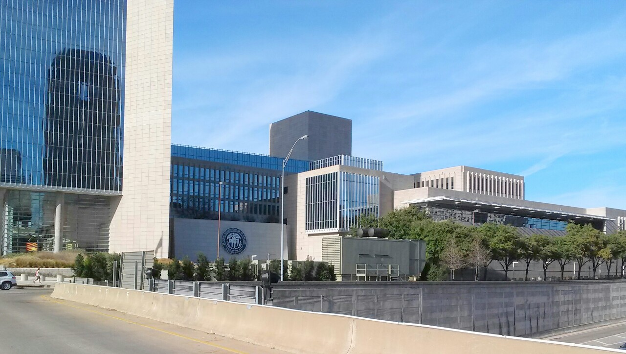 Dallas Federal Reserve